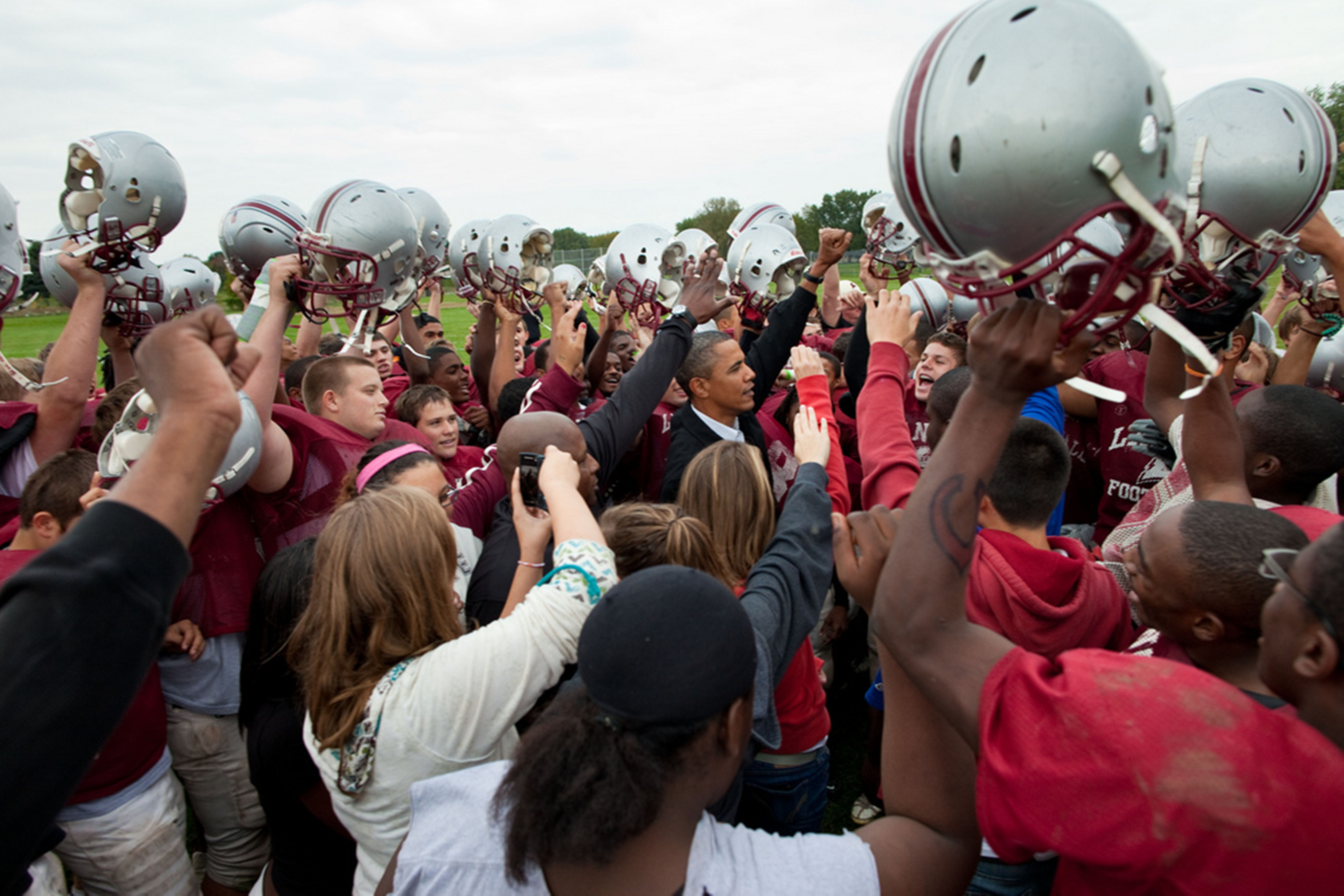 President Obama visit to La Follette High School, Madison Wisconsin, Sept. 28, 2010